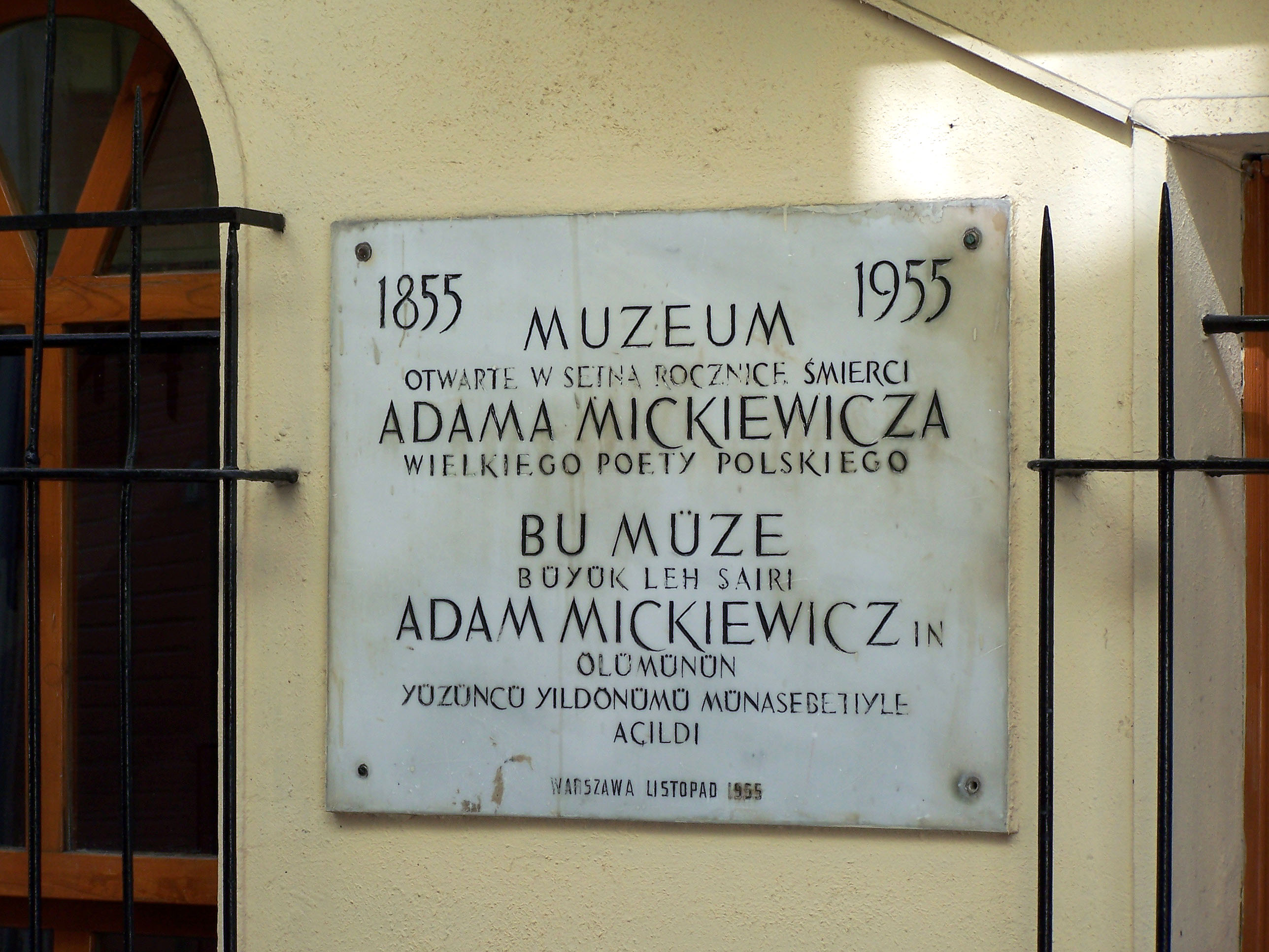 Plaque at Adam Mickiewicz Müzesi in Beyoğlu, İstanbul, Turkey